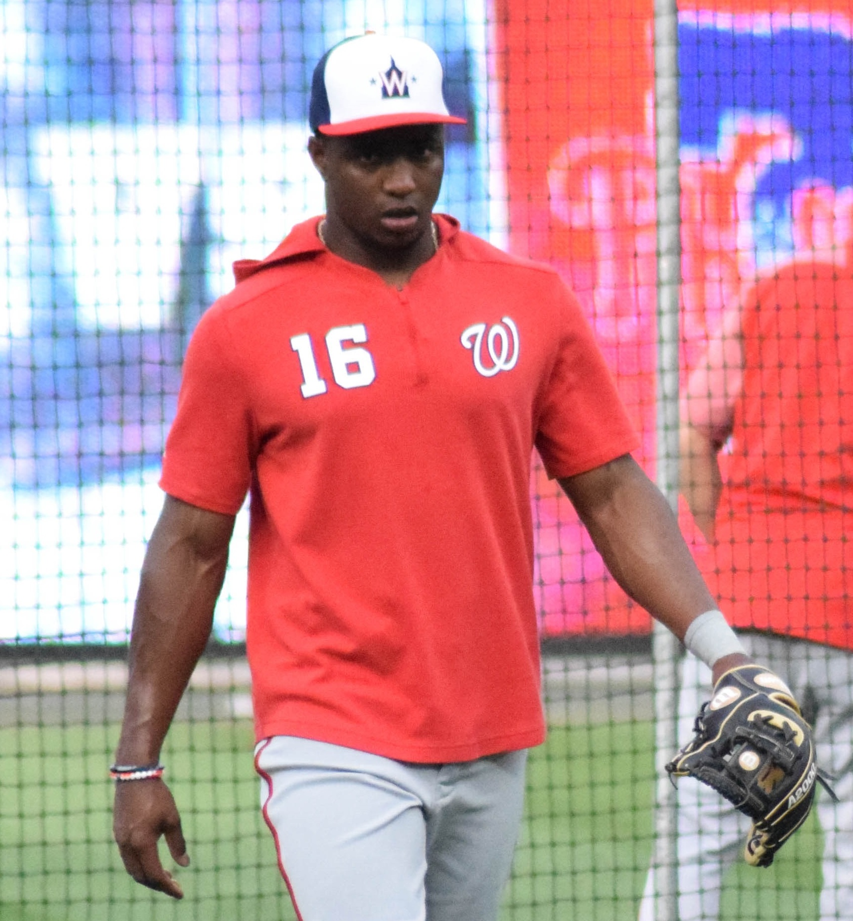 Victor Robles of the Washington Nationals on the field before a 2019 game at Citizens Bank Park in Philadelphia